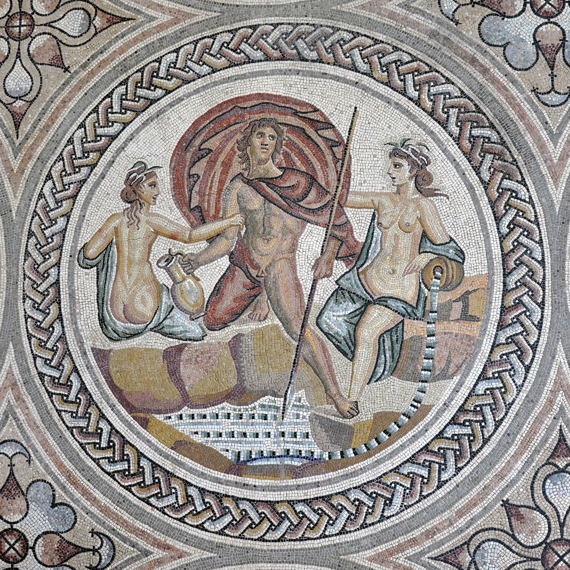 Hylas and the Nymphs, a Gallo-Roman mosaic, 3rd century, in the Musée of Saint-Romain-en-Gal (France)